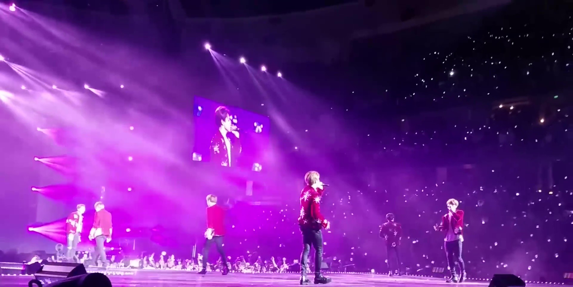 BTS performing "Run" during the BTS Live Trilogy Episode III The Wings Tour in Anaheim, 2 April 2017